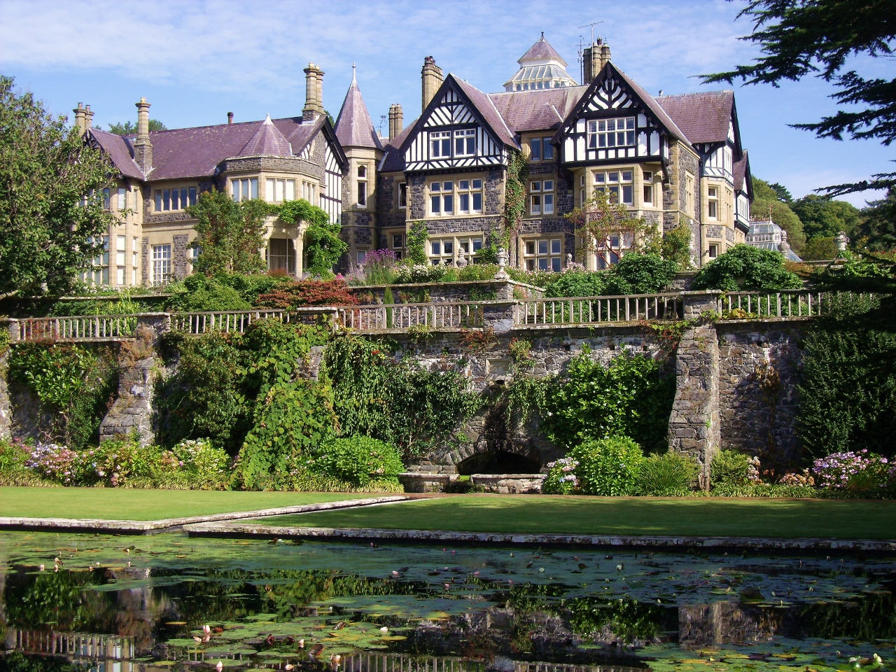 Bonant Hall Garden occupies an area of 32 hectares surrounding Bodnant House, most of which was first laid out by Henry Davis Pochin, a successful industrial chemist, from 1874 onwards until his death in 1895. Bodnant House had been built in 1792 but was remodelled by Pochin and on his death it was inherited by his daughter (whose husband became the first Baron Aberconway in 1911).